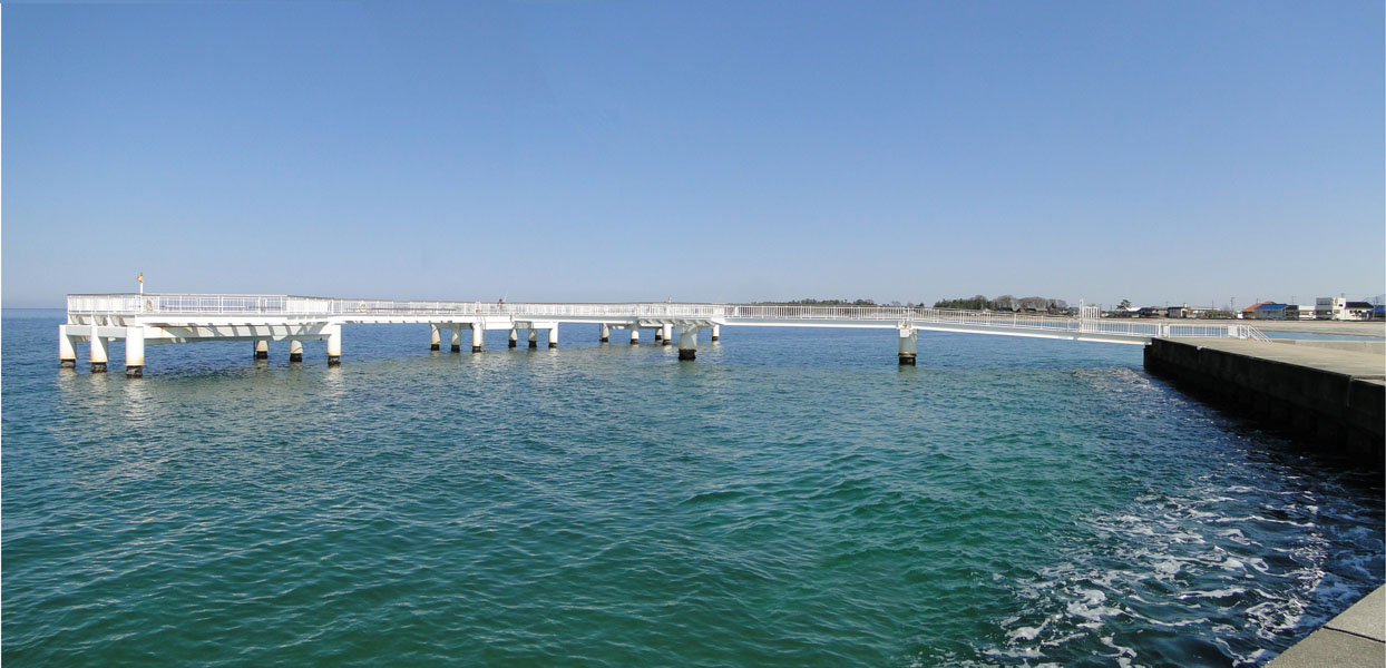 Ishida Turi_Snabasi